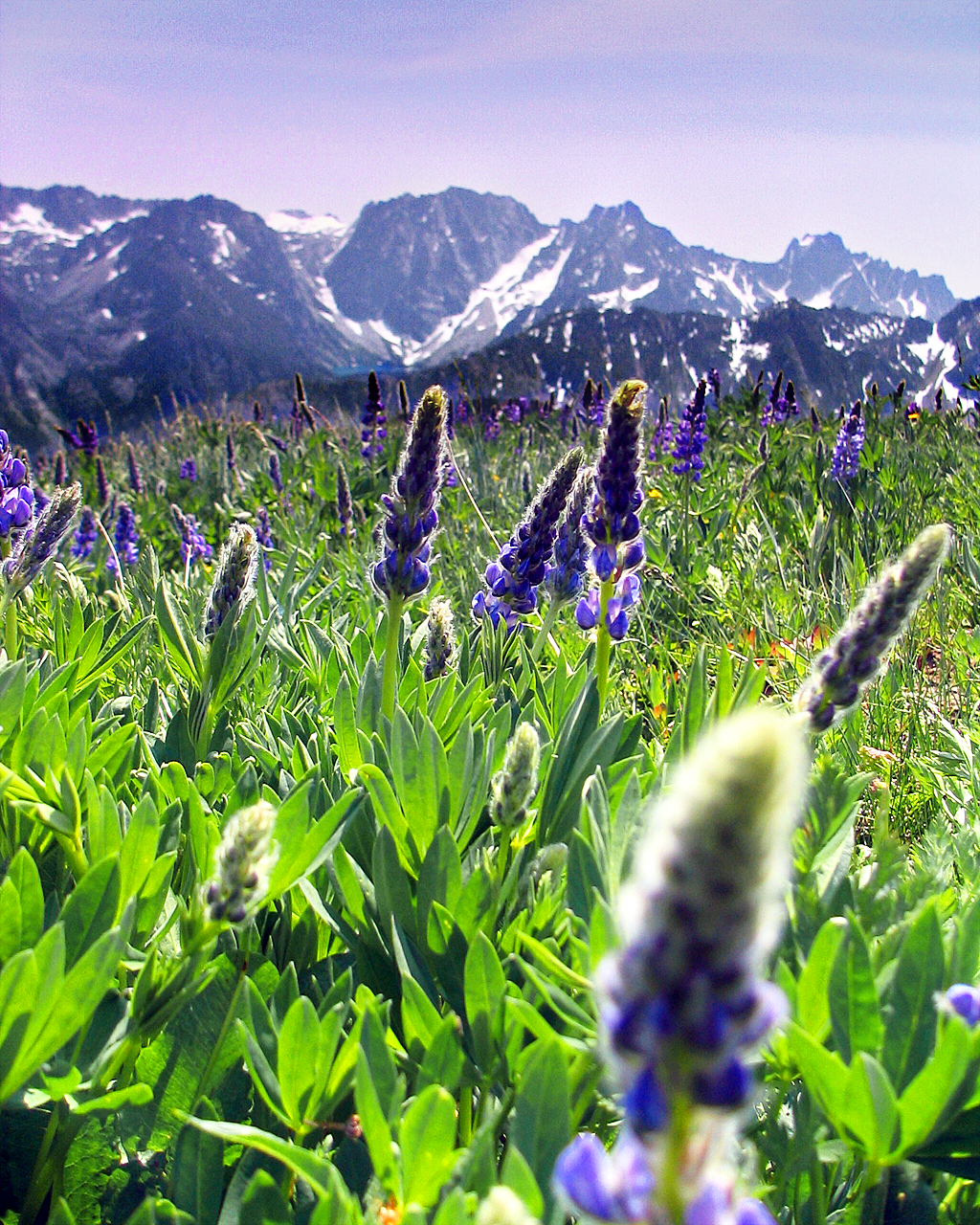 Looking at Dragontail from a lupine field on Cashmere Mountain (Washington)